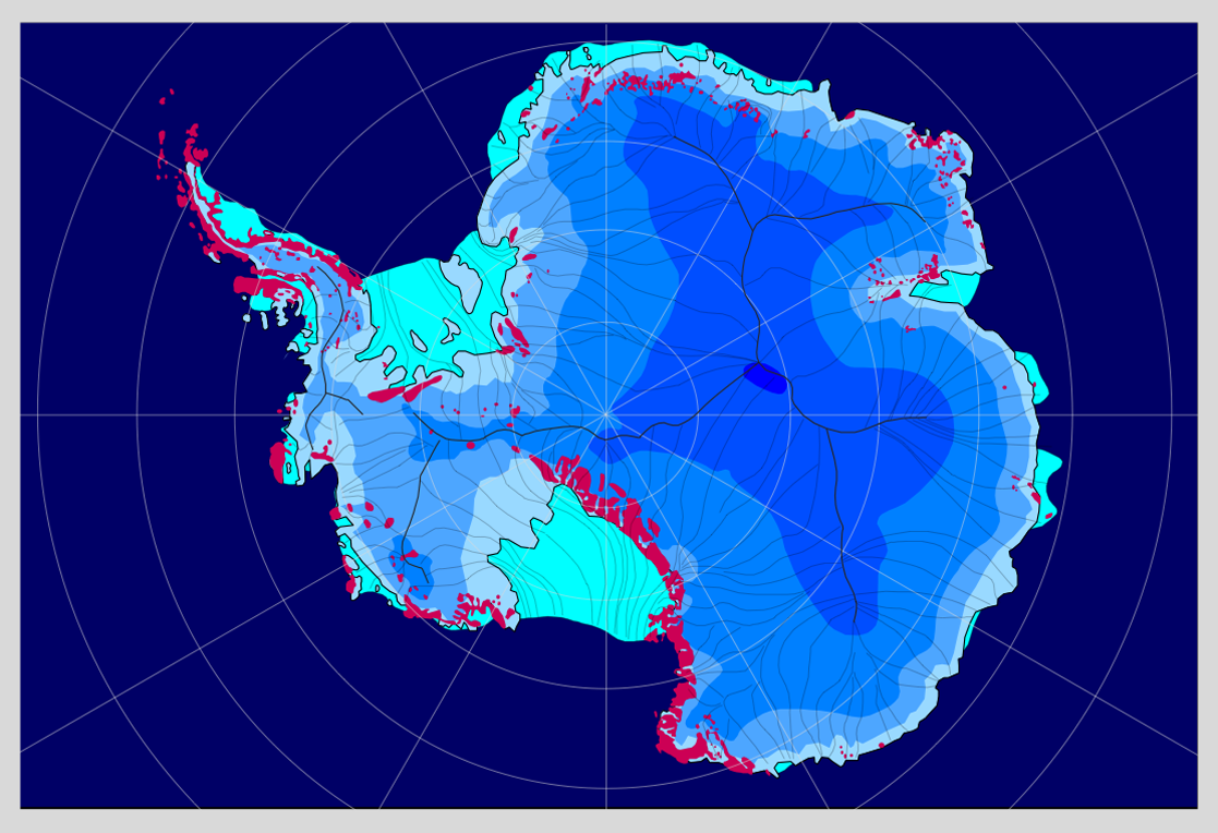 Principle drawing of the size and structure of the Antarctic ice sheet during an interglacial, comparable to the recent stage. thick lines: ice divide thin lines: ice flow lines turquoise areas: ice shelf red areas: not ice covered (2.8 % of total area) blue shaded areas increment by 1000 m in elevation